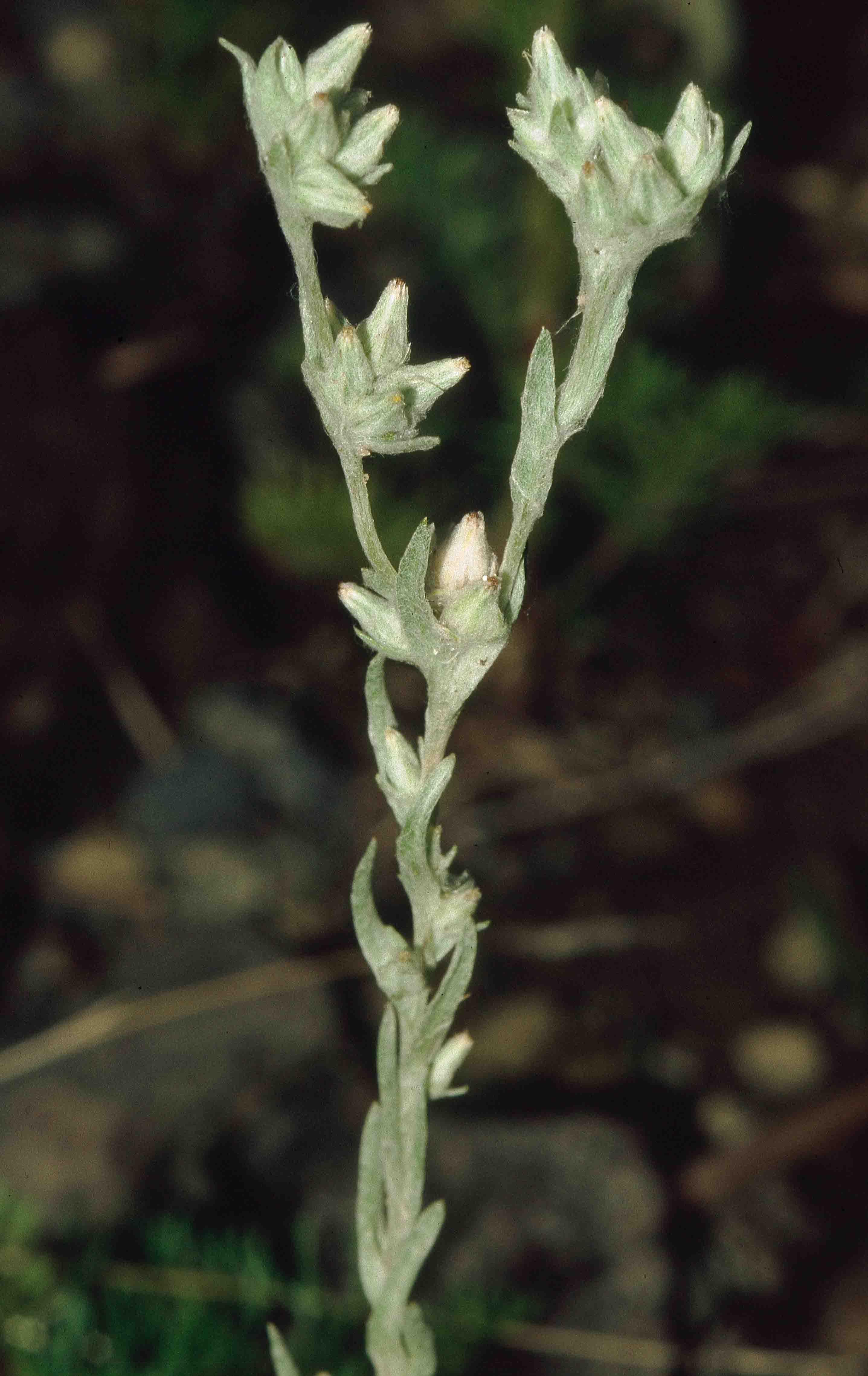 Filago arvensis (Unterfranken, Germany)